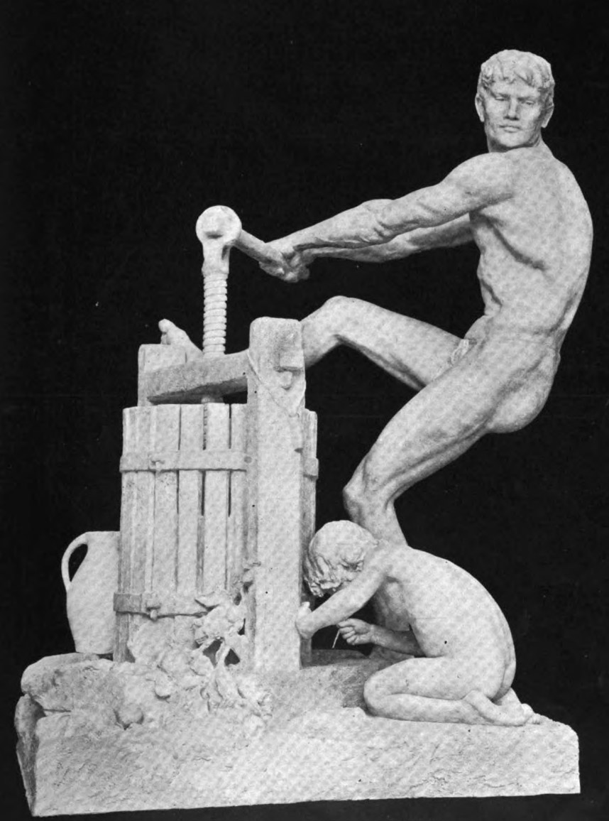 The Cider Press (plaster, 1892) by Thomas Shields Clarke.